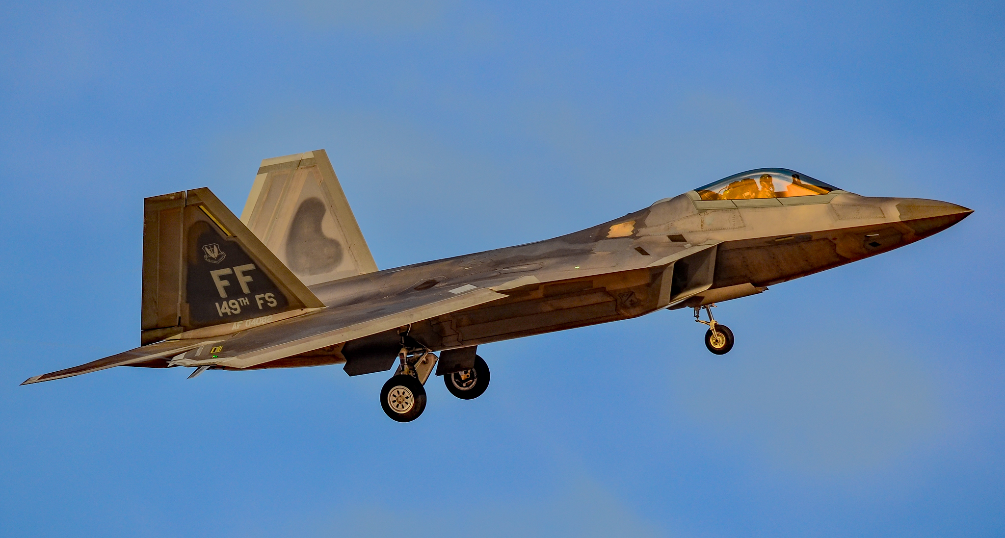 149th Fighter Squadron (149 FS) is a unit of the Virginia Air National Guard's 192d Fighter Wing located at Joint Base Langley–Eustis, Virginia.